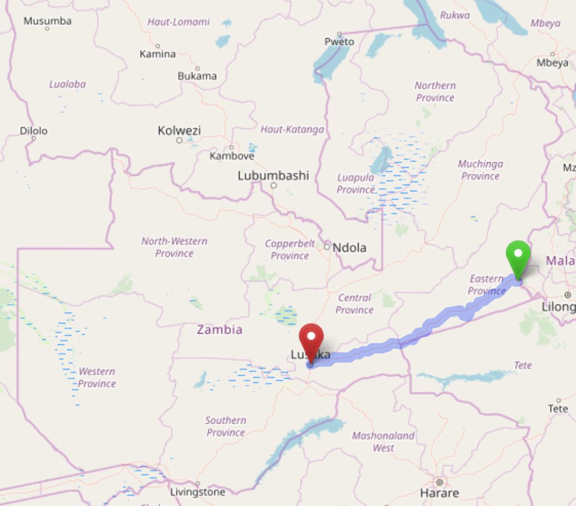 Map of the Great East Road in Zambia This map of Zambia was created from OpenStreetMap project data, collected by the community. This map may be incomplete, and may contain errors. Don't rely solely on it for navigation.